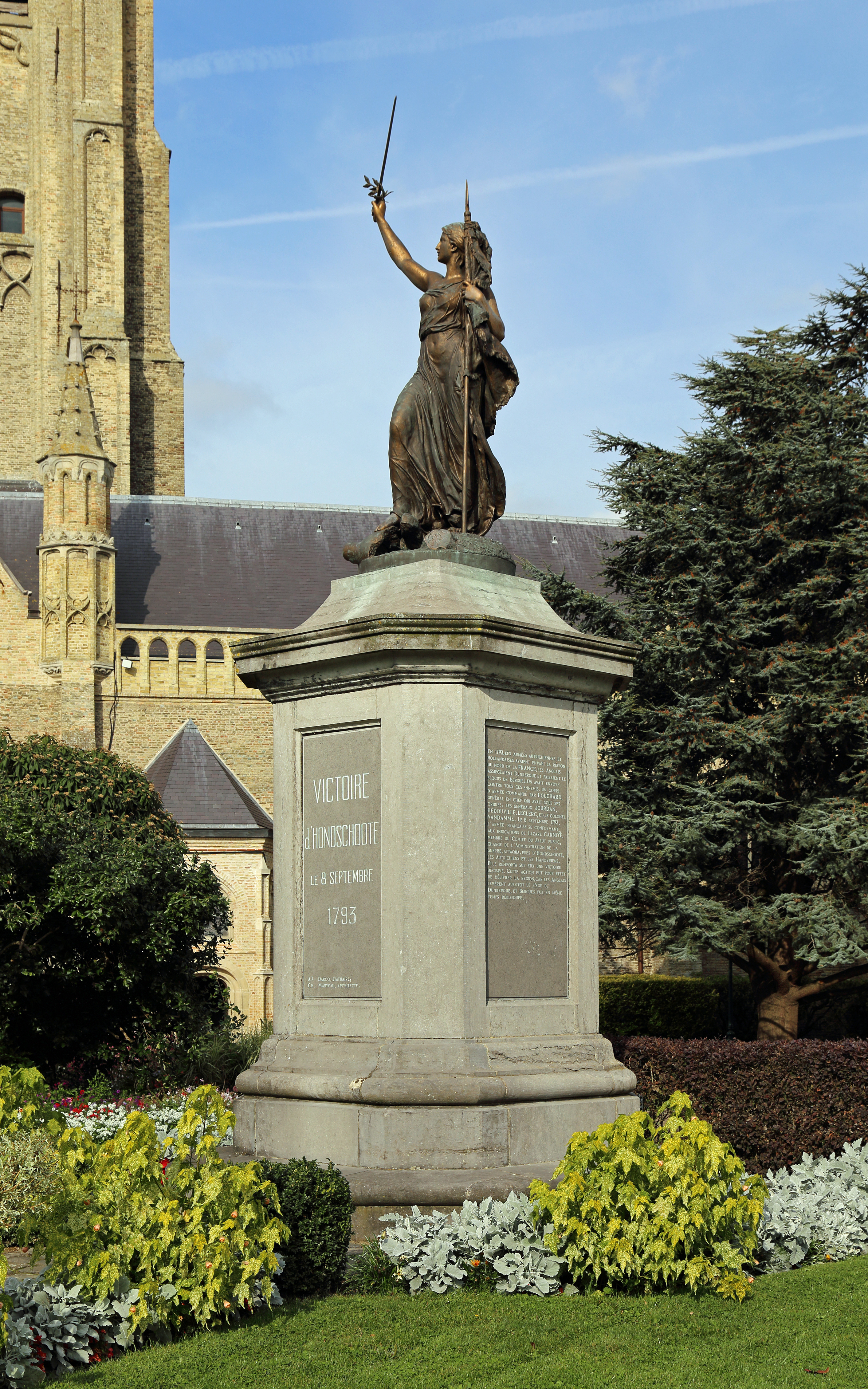 Hondschoote (Nord department, France): memorial for the Battle (and the French victory) of Hondschoote (1793)